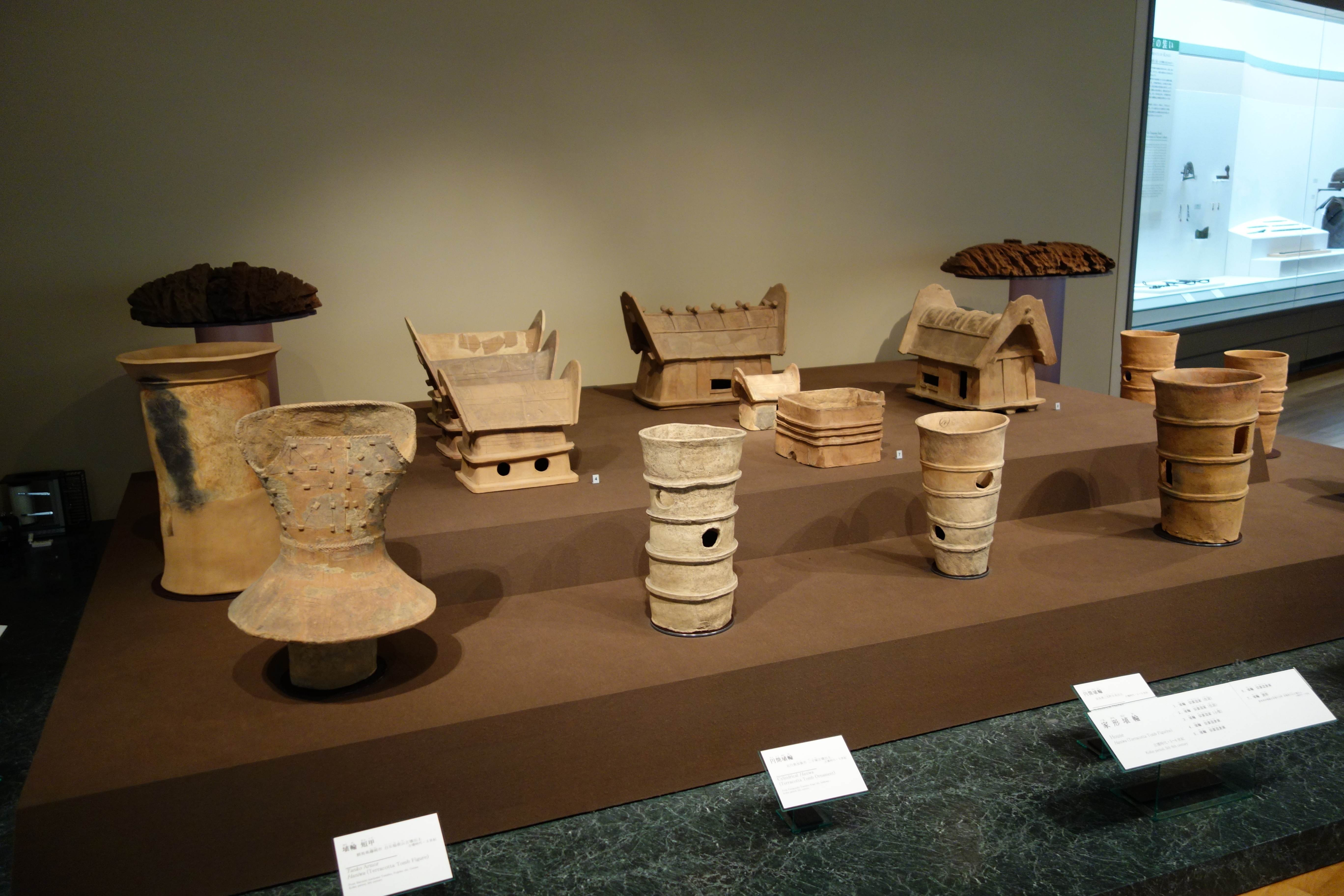 Exhibit in the Tokyo National Museum, Tokyo, Japan. This artwork is old enough so that it is in the public domain.